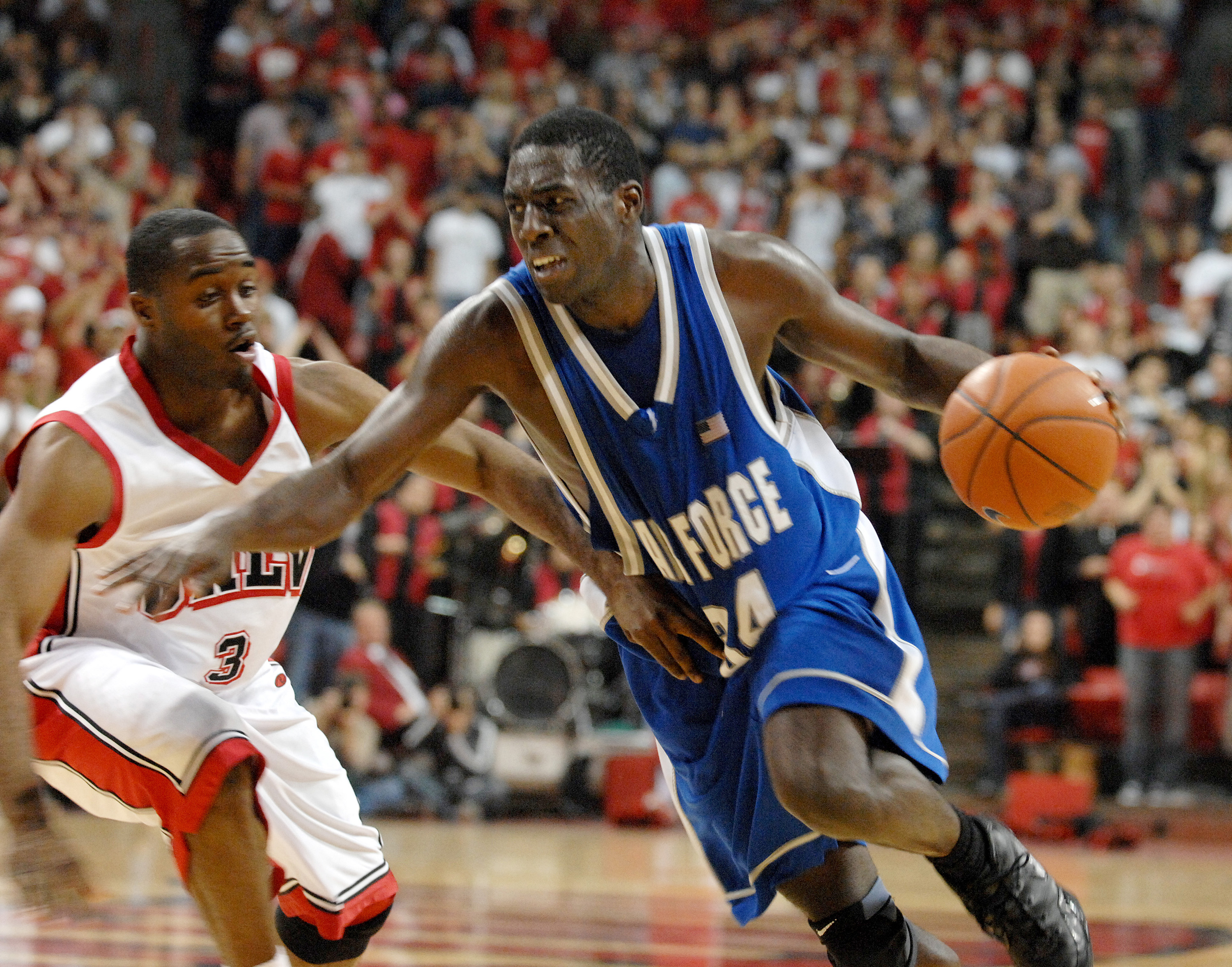 Dan Nwaelele drives past Lamar Roberson during a game between the University of Nevada Las Vegas and the U.S. Air Force Academy Feb. 20 at the Thomas and Mack Center in Las Vegas. UNLV won the game by a score of 60 to 50. (U.S. Air Force photo/Master Sgt. Robert W. Valenca)